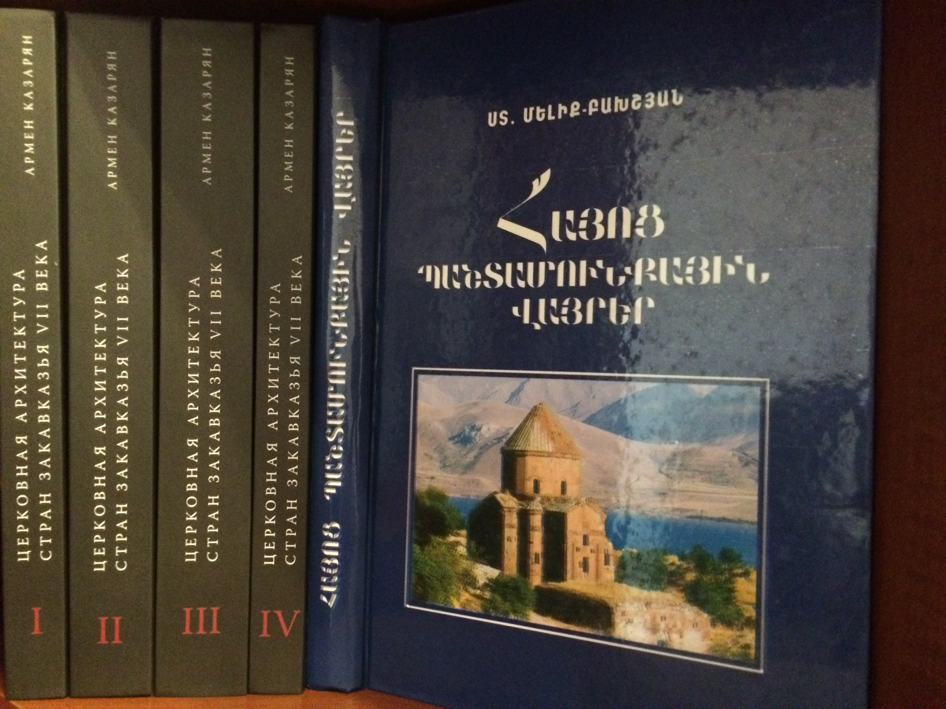 Cover of the «Armenian Places of Worship» encyclopedia.